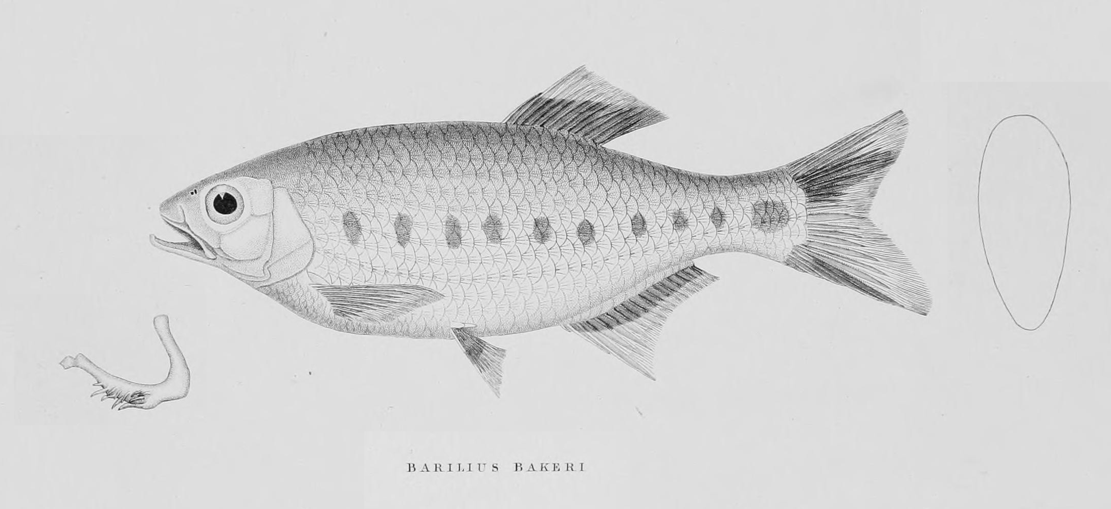 Barilius bakeri